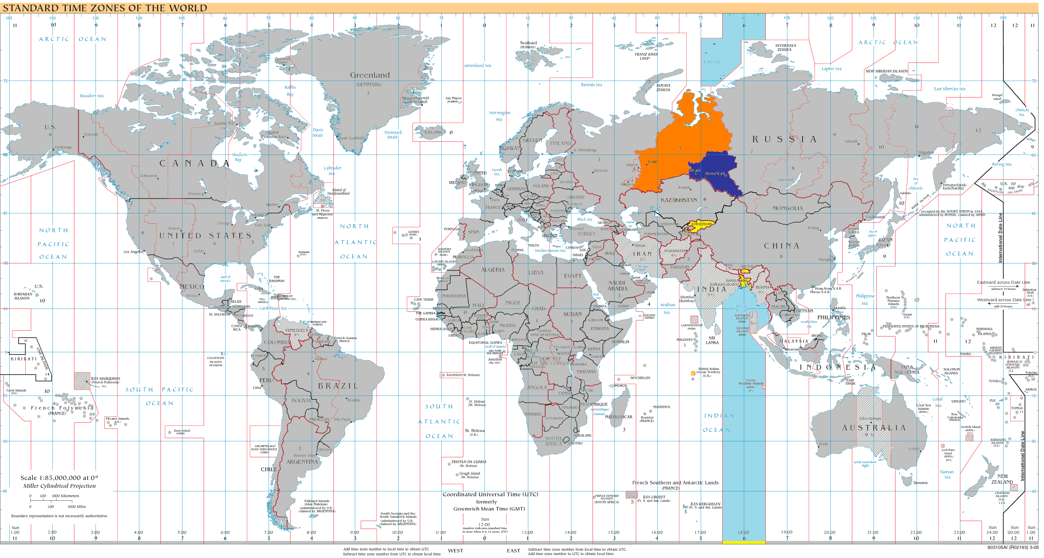 World map of time zones as of 2008, on the Miller Cylindrical Projection and with highlighted UTC+6 zone. Dark Blue - UTC+6 during Northern Winter / Southern Summer Orange - UTC+6 during Northern Summer / Southern Winter Yellow - UTC+6 all year round Light Blue - UTC+6 sea areas